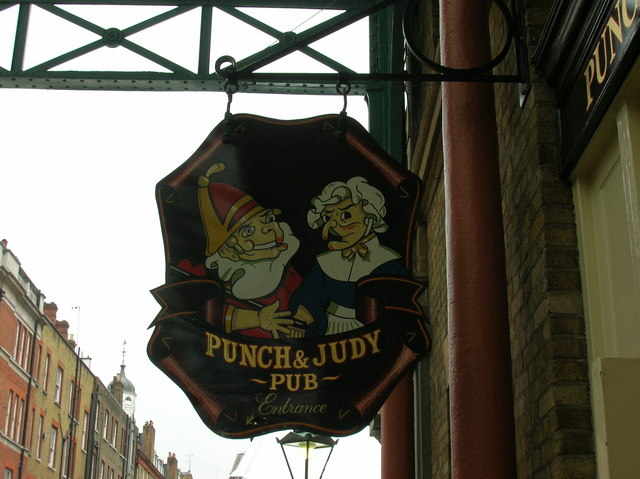 London, Covent Garden: Punch & Judy Pub sign A very interesting pub sign situated very close to the Covent Garden, London.